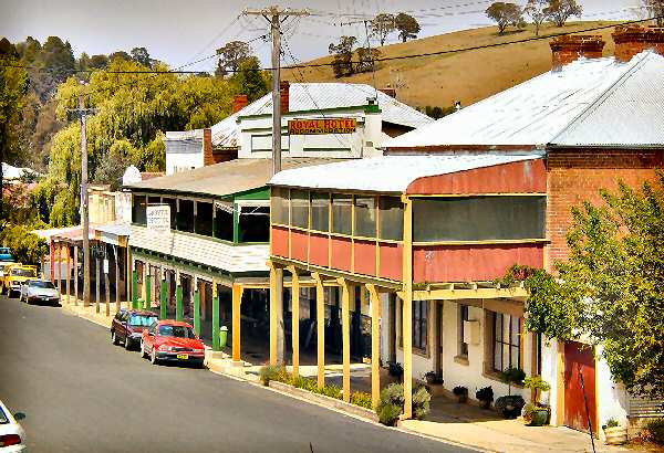 Belubula Street in Carcoar This image was taken and is supplied by Brian Yap.